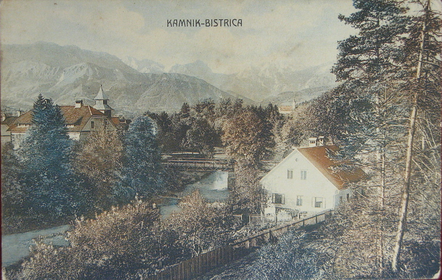 Postcard of Kamniška Bistrica.